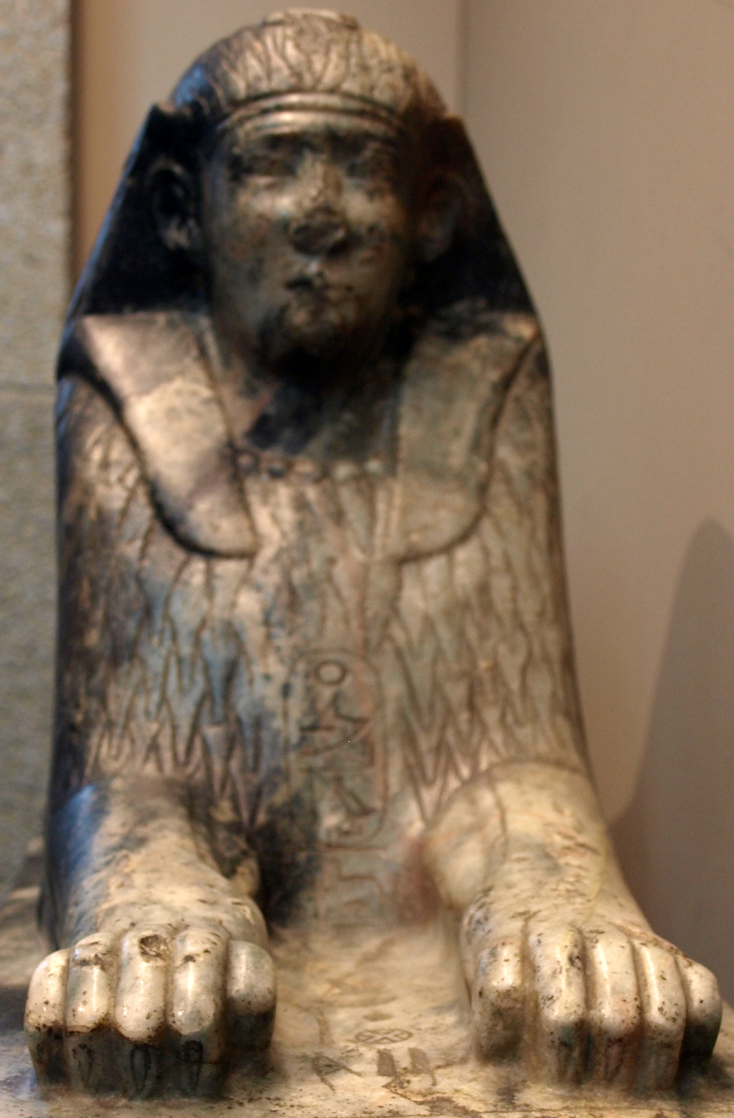 Sphinx of Ammenemes IV (Amenemhat IV), made of gneiss, circa 1795 BC. Its face was reworked during the Roman period. EA 58892.{For date of Amenemhat IV, 1815-1807 BC, see: List of pharaohs, or his article.)